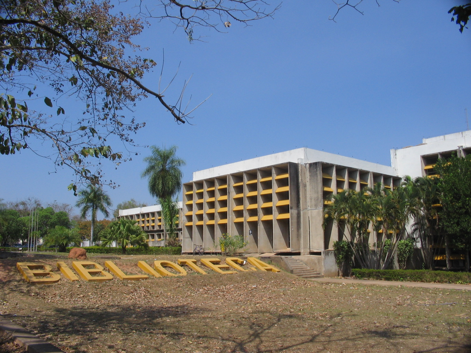 Entrance of the Central Library of the Federal University of Mato Grosso, in Cuiabá.